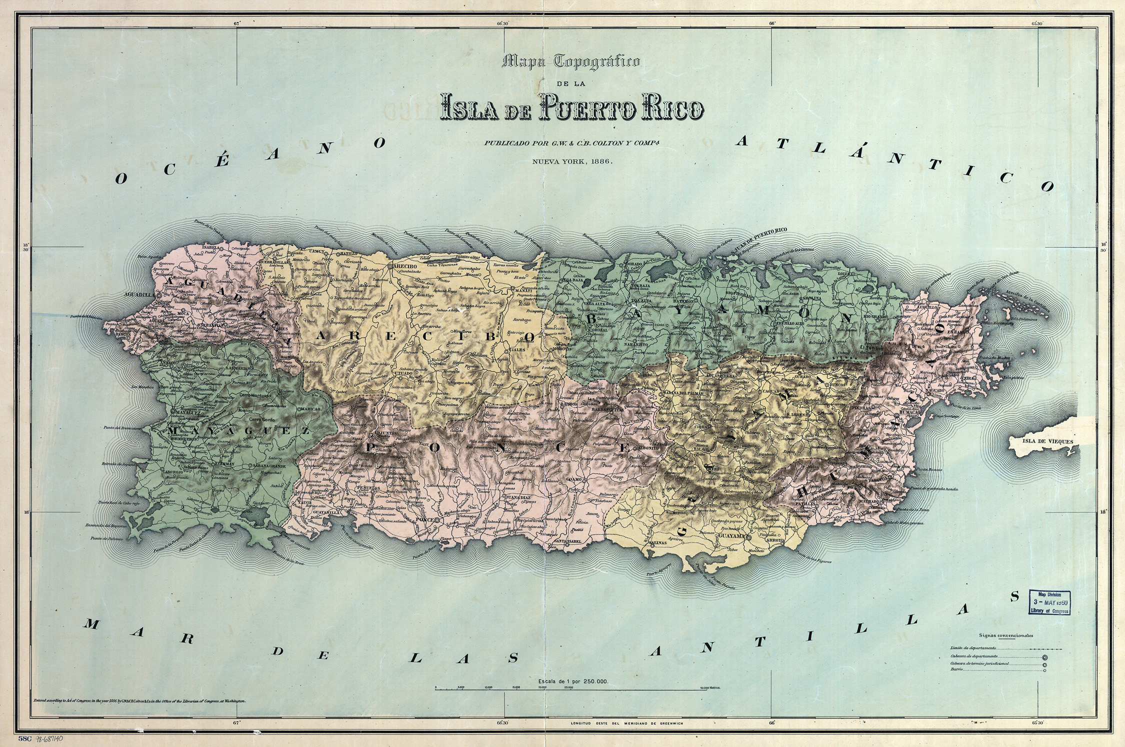 Map of Puerto Rico with Spanish colonial administrative subdivisions into departamentos — 1886.